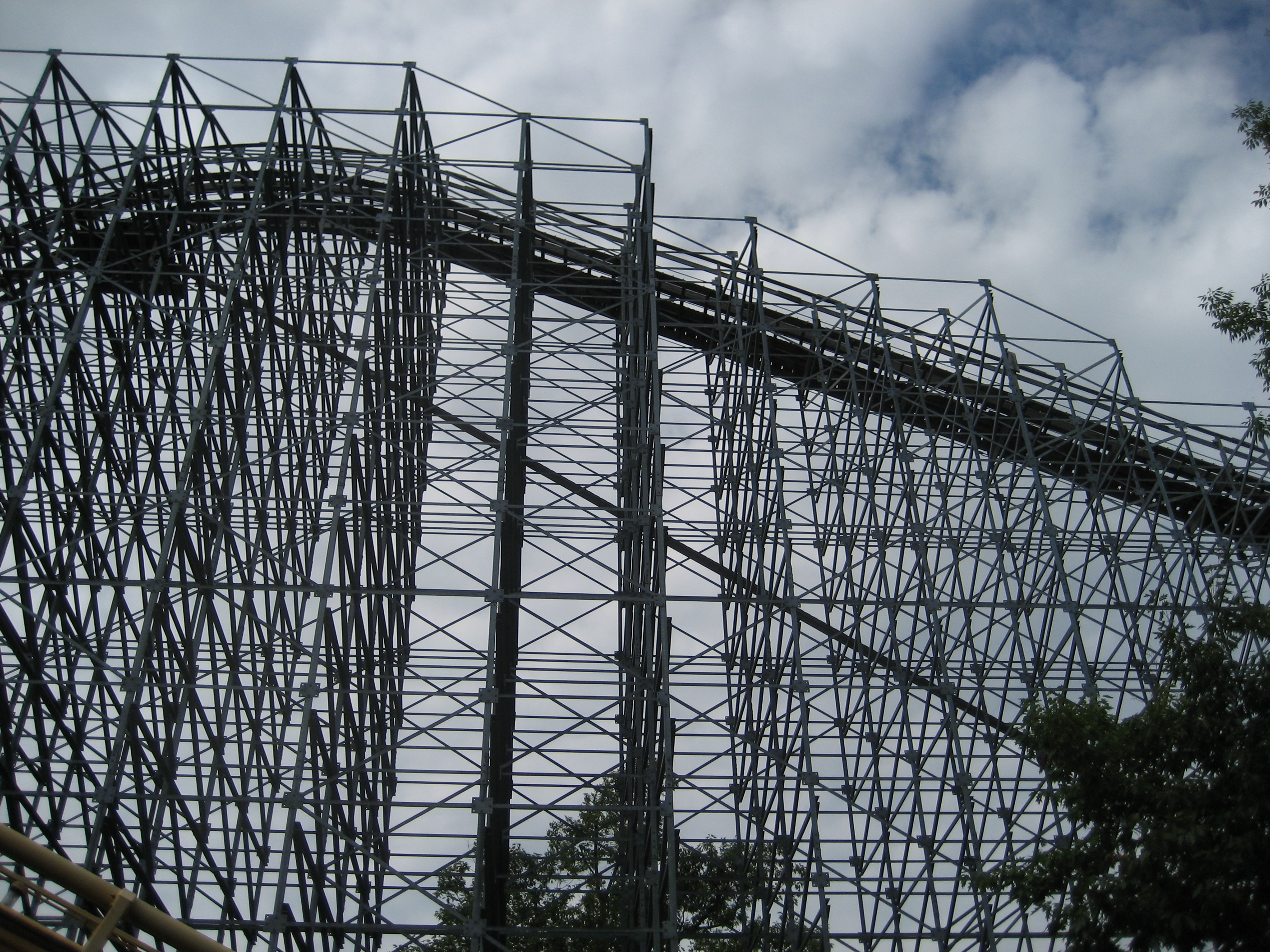 Picture of The Villain at Geauga Lake amusement park.